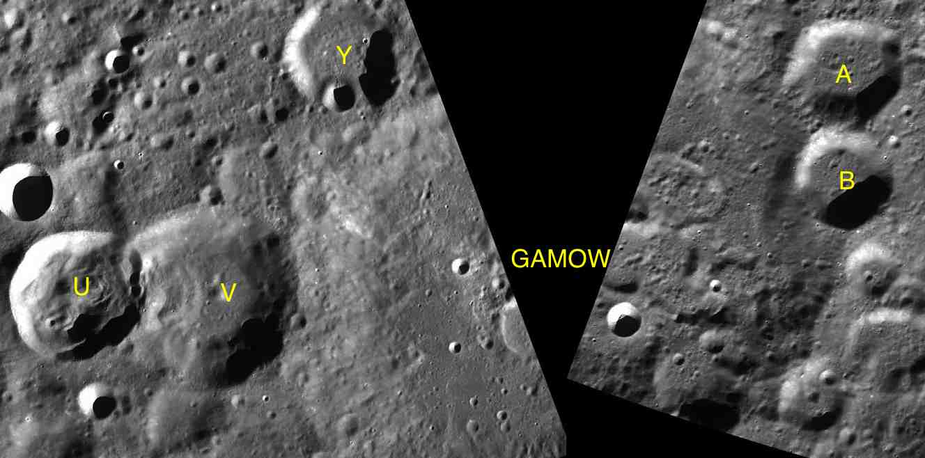 Parts of the charts LAC-6, LAC-7 used for the presentation